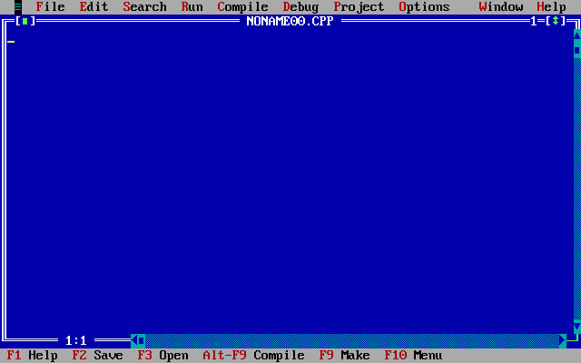 Screenshot of the Turbo C++ IDE (Integrated Development Environment). The IDE requires a mininum of 2 Mb RAM to run. Alternatively, the Turbo C++ compiler can be run in command-line mode with a mininum of 1 Mb RAM.